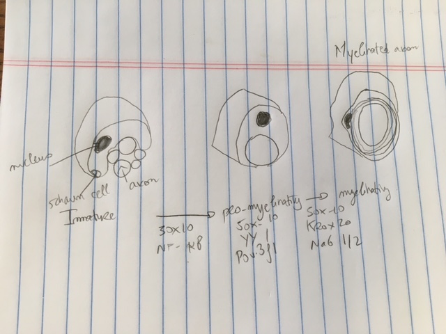 Transcription factors involved in axon myelination in Schwann cells